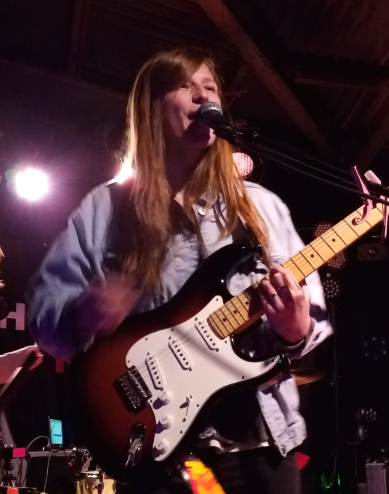 Singer/songwriter Cayley Spivey of the South Carolina-based band Small Talks performs at Voltage Lounge in Philadelphia PA, February 16, 2019.